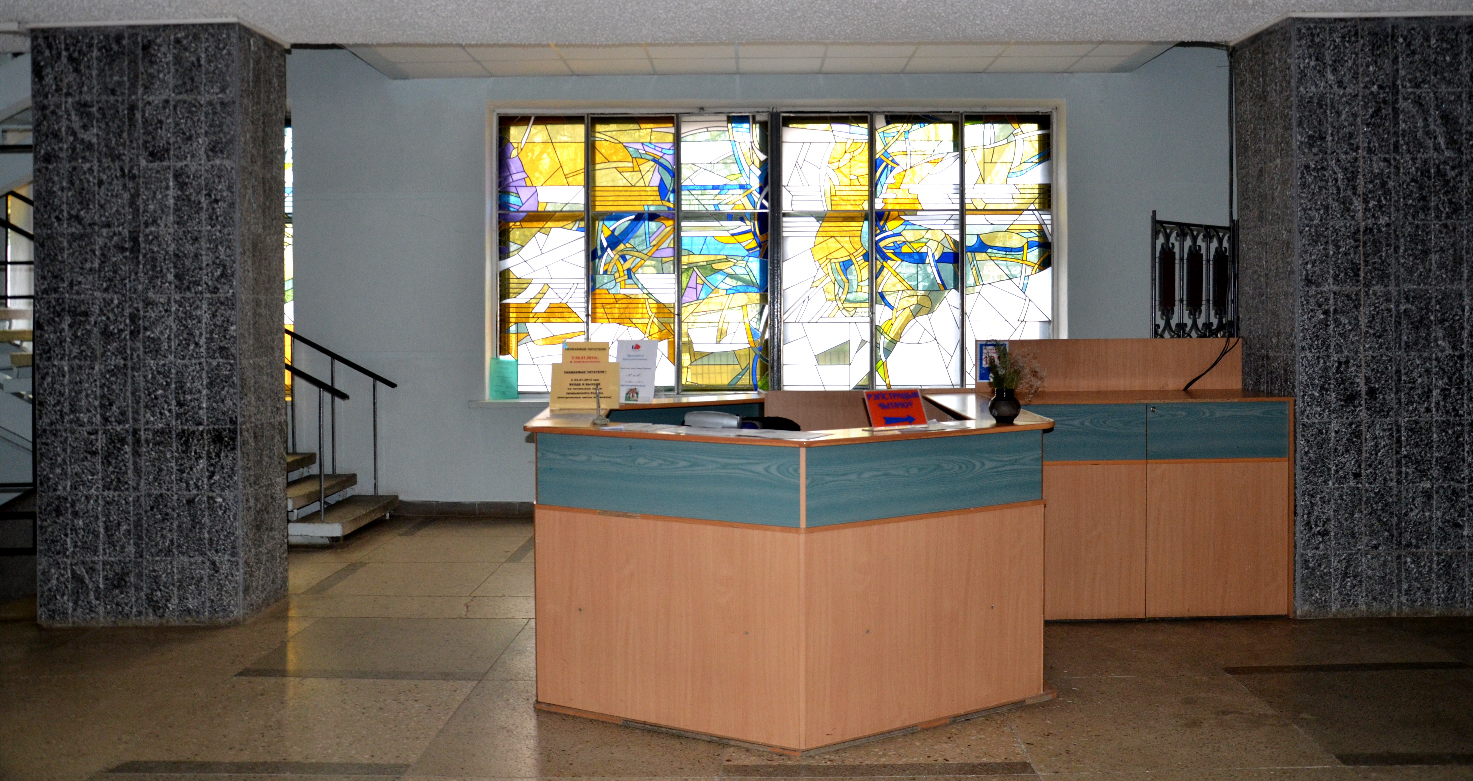 Stained-glass windows of library of Pushkin in Minsk